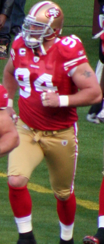 94 Justin Smith of the San Francisco 49ers